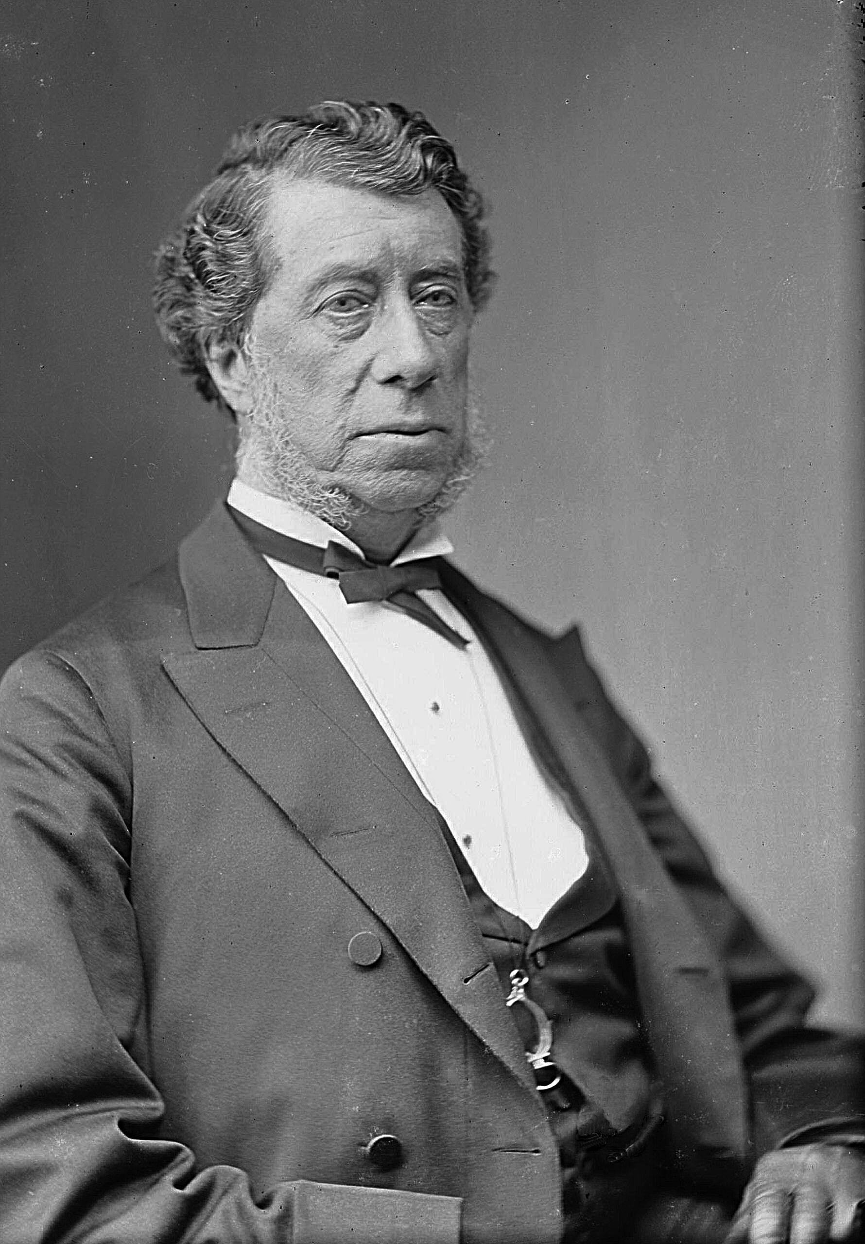 Hamilton Fish in elder years.